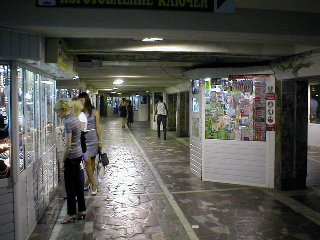 underground pass transfer on Tuqay square in Kazan